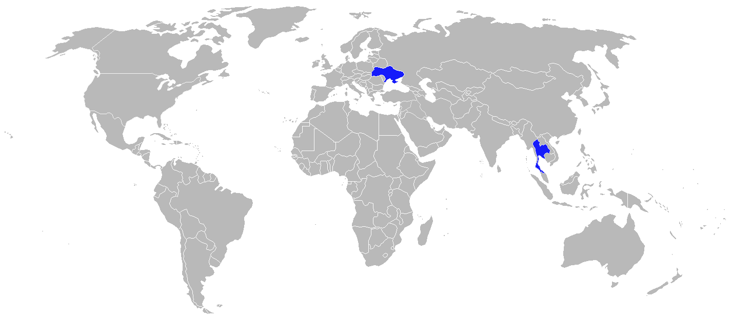 World operators of Ukrainian tank BM-Oplot. Dark blue - used; light blue - delivery expected